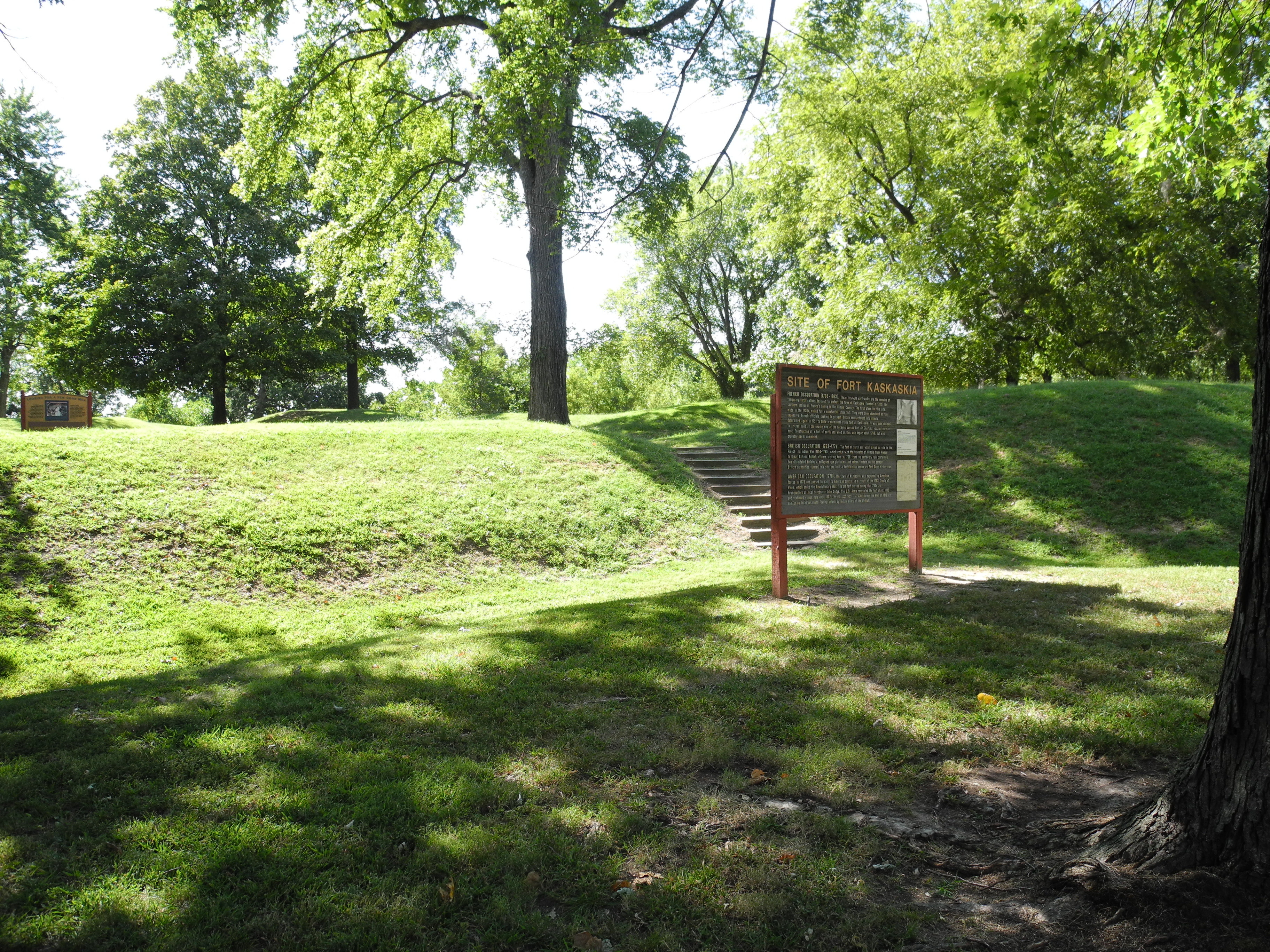 The eroded earthen ramparts of French Fort Kaskaskia on the banks of the Mississippi River in the state of Illinois.